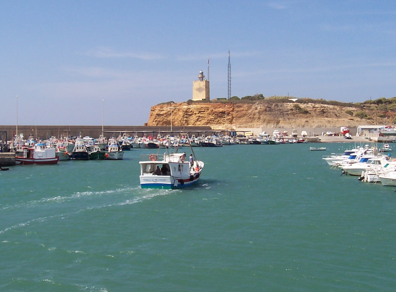 Cabo Roche lighthouse at the northern part of Conil de la Frontera harbour